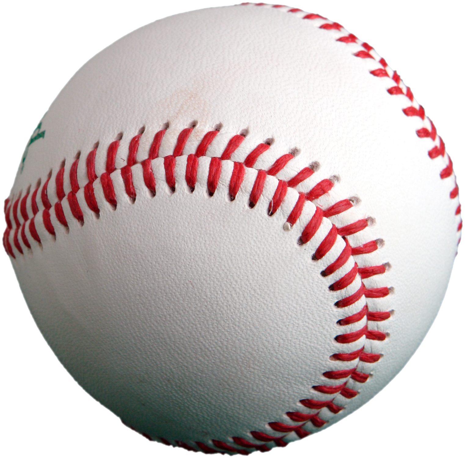 A baseball, cropped from Image:Baseball.jpg